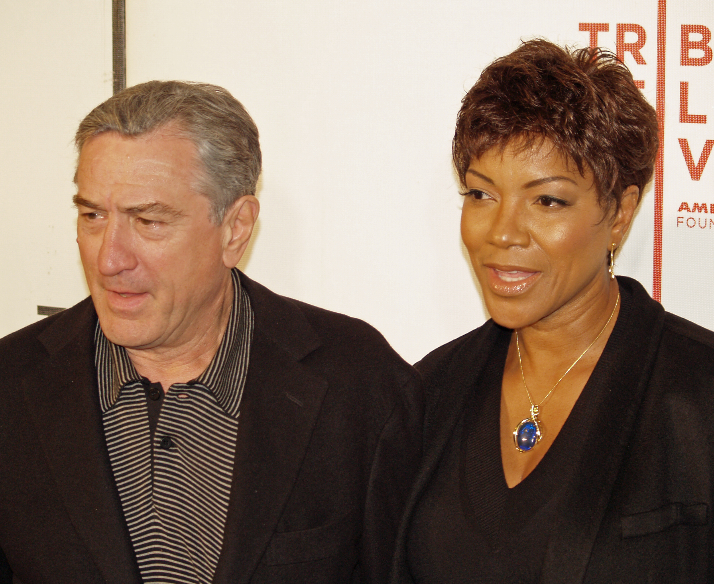 Robert De Niro and his wife Grace Hightower at the Tribeca Film Festival in New York City.